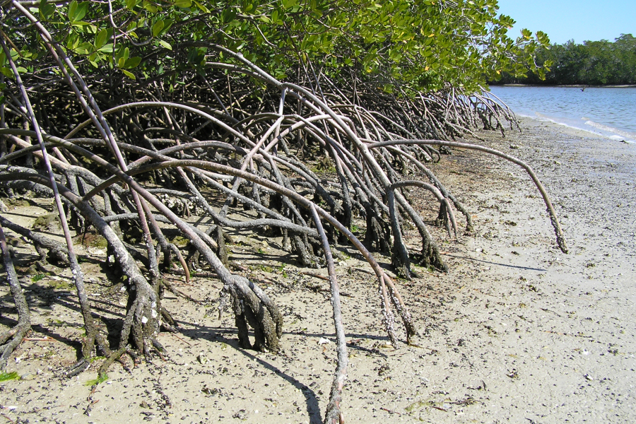 Mangrove trees along the coastline protect the shore from erosion, Everglades National Park